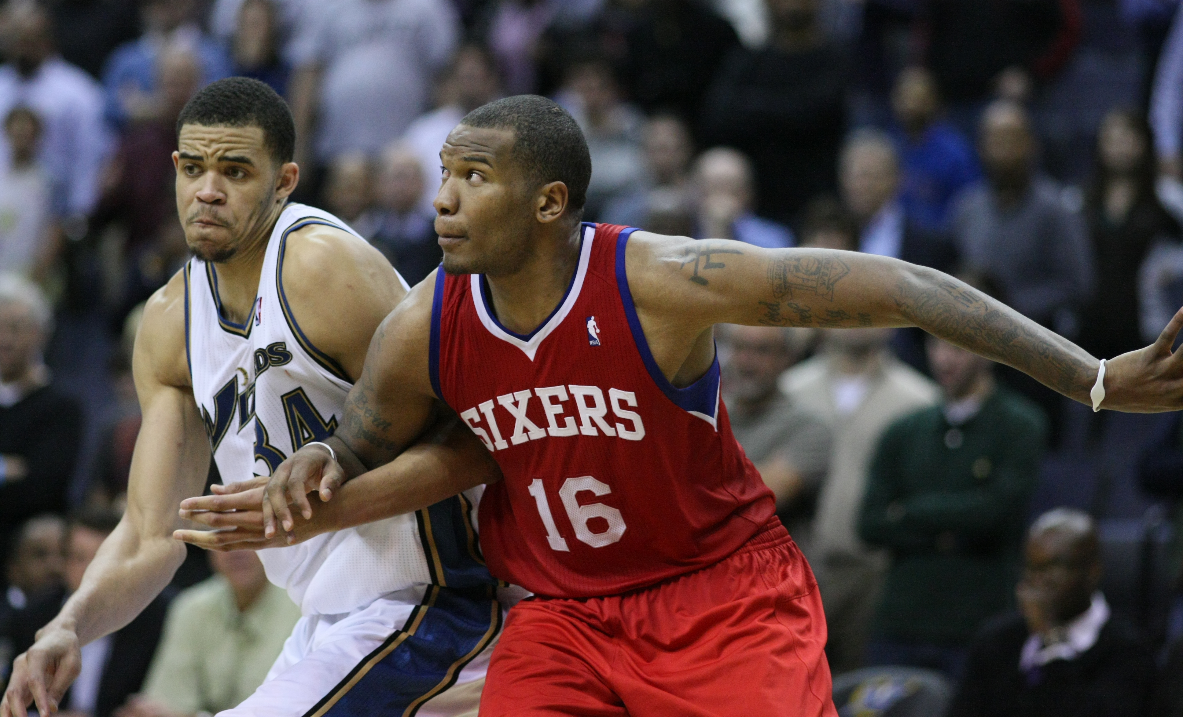 Washington Wizards v/s Philadelphia 76ers November 23, 2010